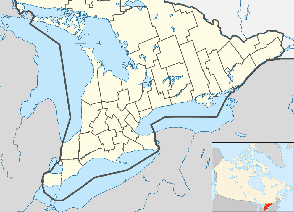 Location map of Southern Ontario, Canada. Equirectangular projection, N/S stretching 155%. Geographic limits of the map: N: 46.4° N S: 41.4° N W: 84.7° W E: 74.0° W